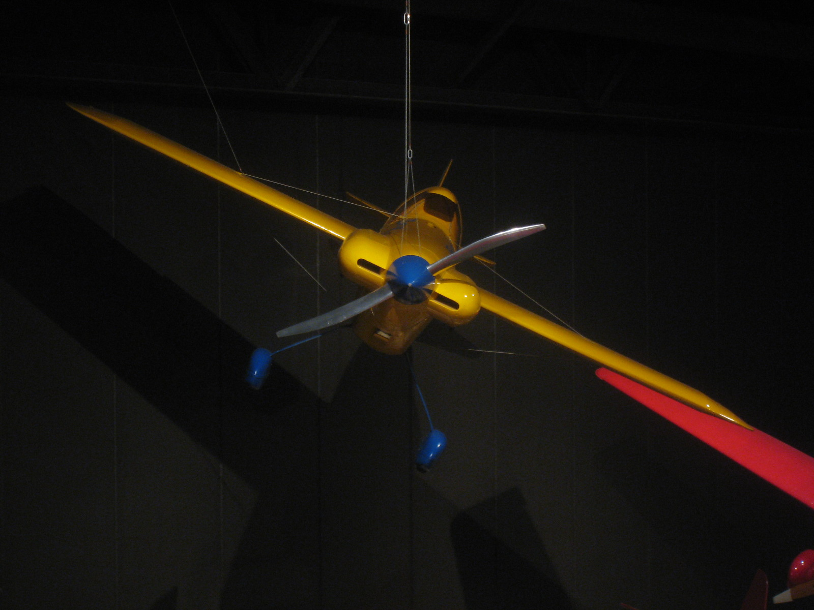 Wittman DFA